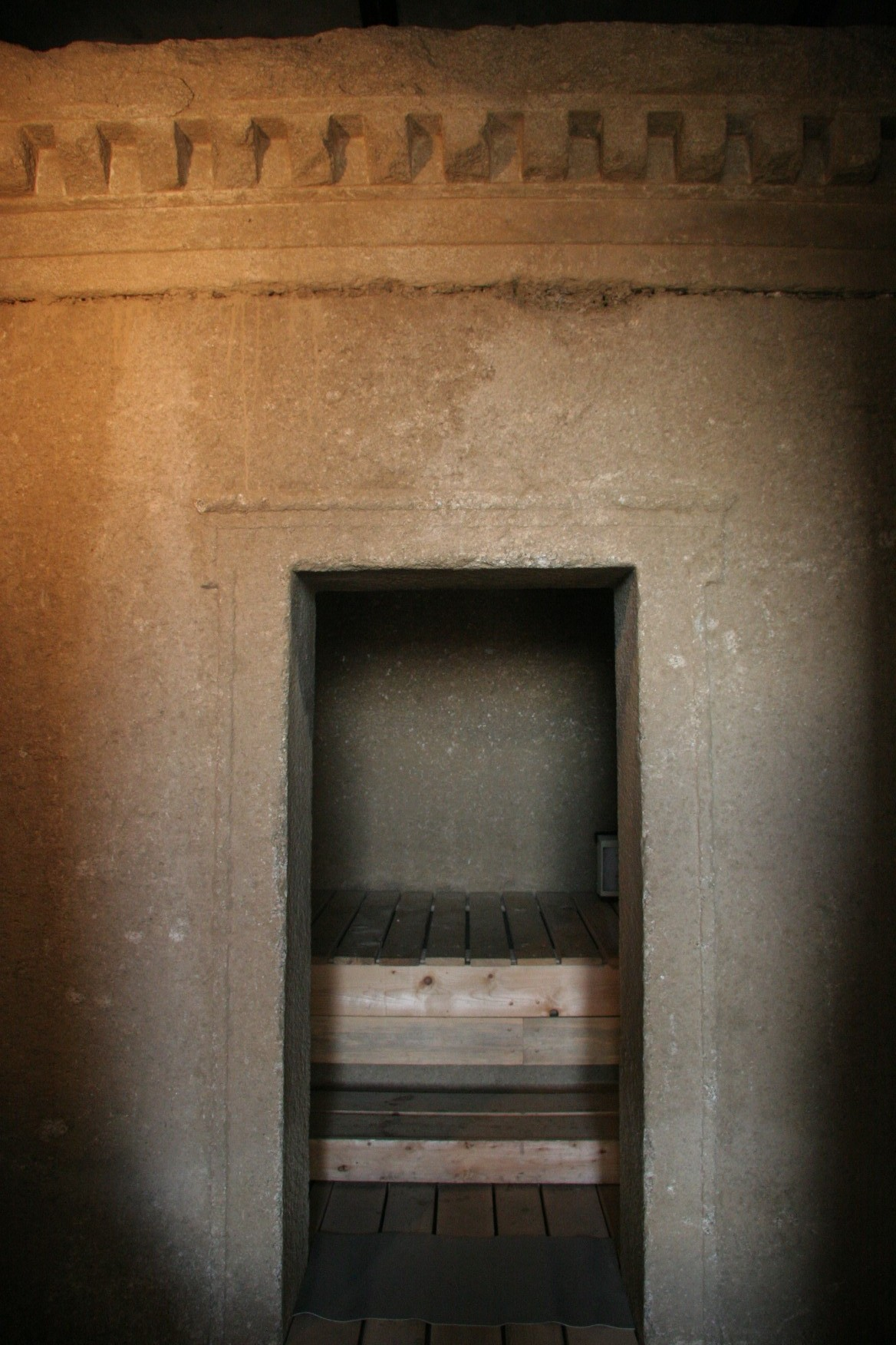 view from inside